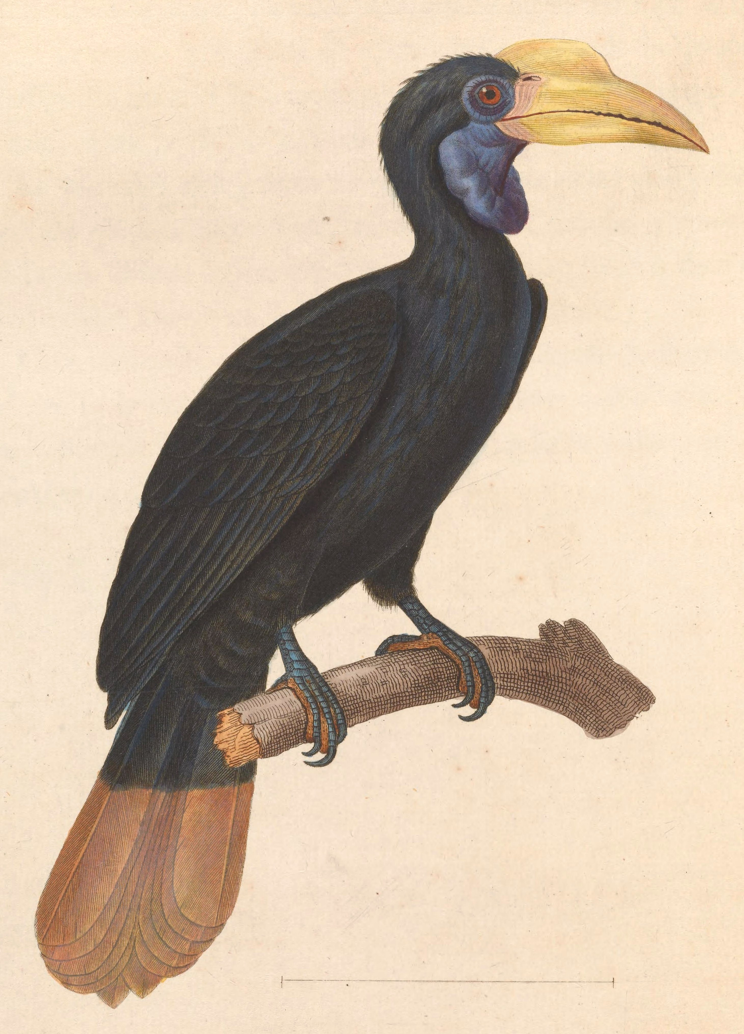 « Buceros gracilis » = Aceros corrugatus (Wrinkled Hornbill) - female